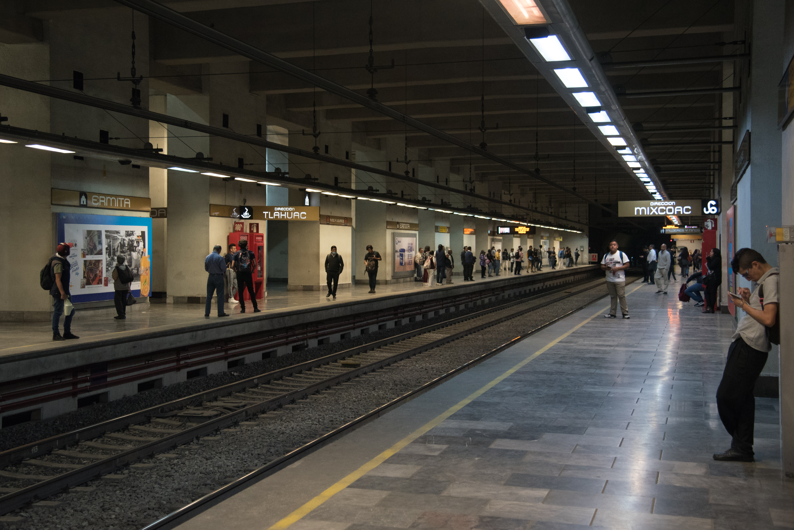 Line 12 platforms of Metro Ermita